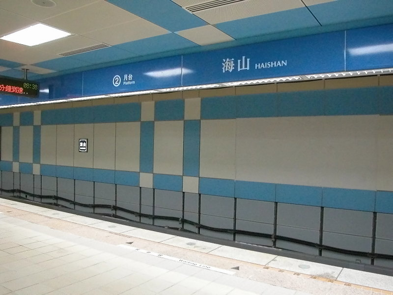 Platform 2, Haishan Station, Taipei MRT.中文（台灣）: 臺北捷運海山站第二月台。